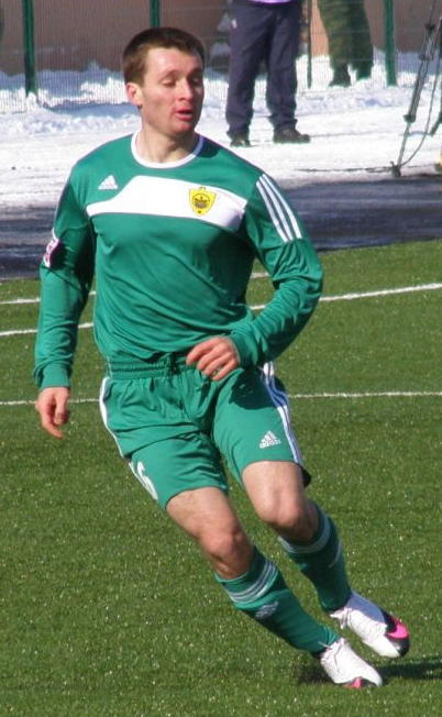 David Tsorayev in action for FC Anzhi